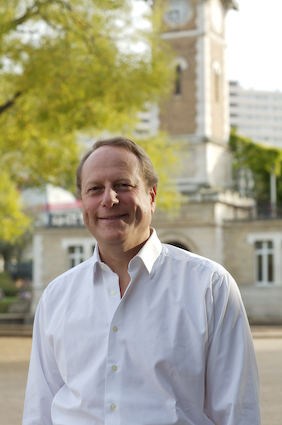 Philippe Goujon